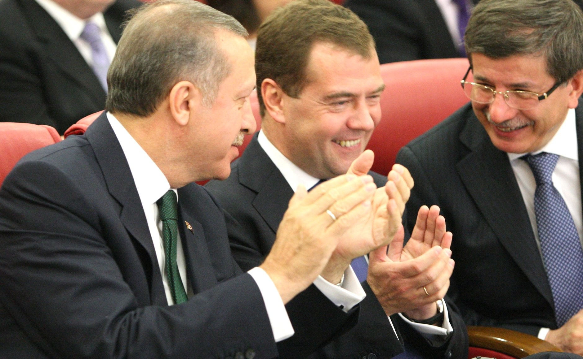 Turkish prime minister Recep Tayyip Erdoğan (L) and Russian president Dmitry Medvedev (C) and Turkish foreign minister Ahmet Davutoğlu (R) in Turkey.